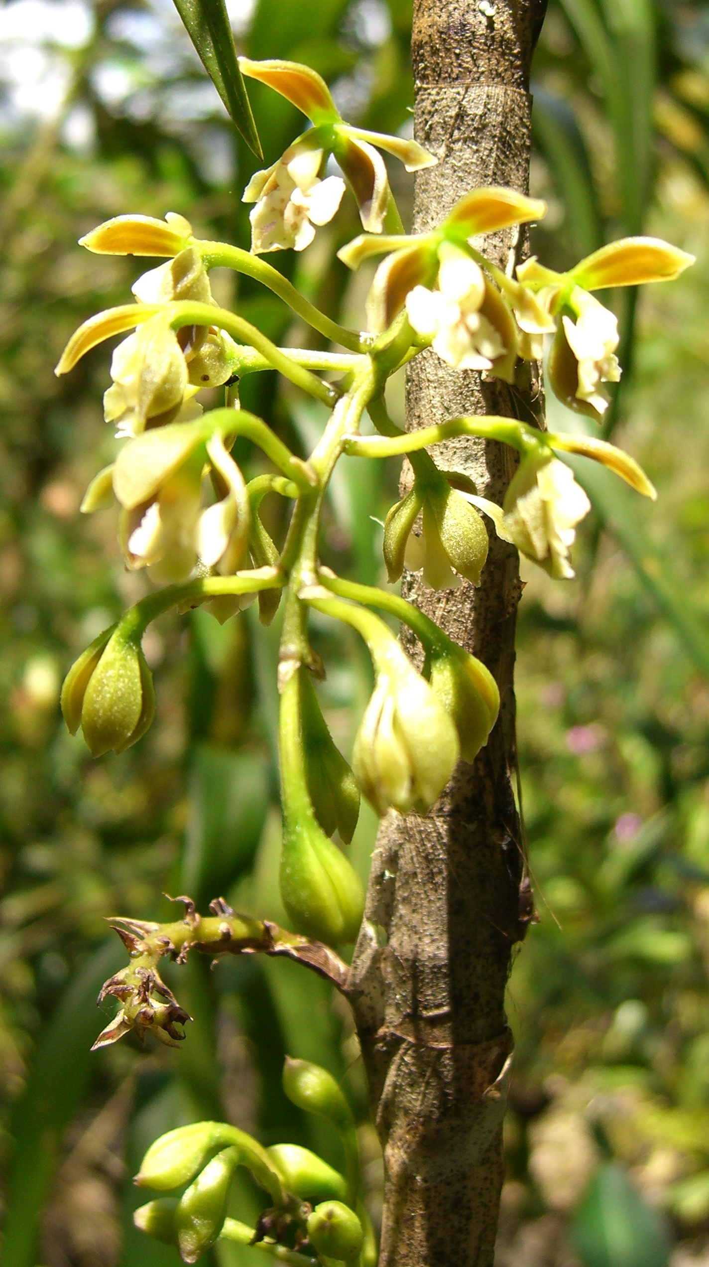 Please report references to .